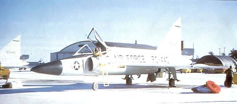 31st Fighter-Interceptor Squadron - Convair F-102A-50-CO Delta Dagger - 55-3440, served at Wurtsmith AFB from 12/21/56 to 09/10/57, photo taken at Wurtsmuth AFB, Michigan Photo caption calls this 56-1440, which according to USAF official records was never assigned to the 31st FIS, but much later to 18th FIS; 482nd FIS; 76th FIS; and 82nd FIS; transferred to PACAF. Additionally, the style of markings shown in the photograph was only applied to F-102A aircraft prior to 56-1317, the 534th production aircraft.